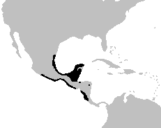 Distribution of Rhinophrynidae.